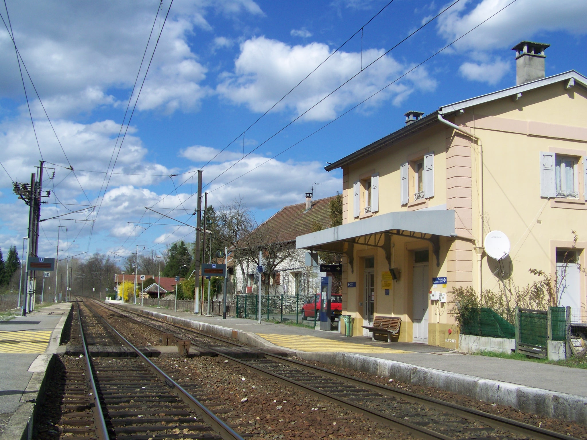 General view of the French commune of Grésy sur Aix railway station, near Aix-les-Bains, in Savoie.